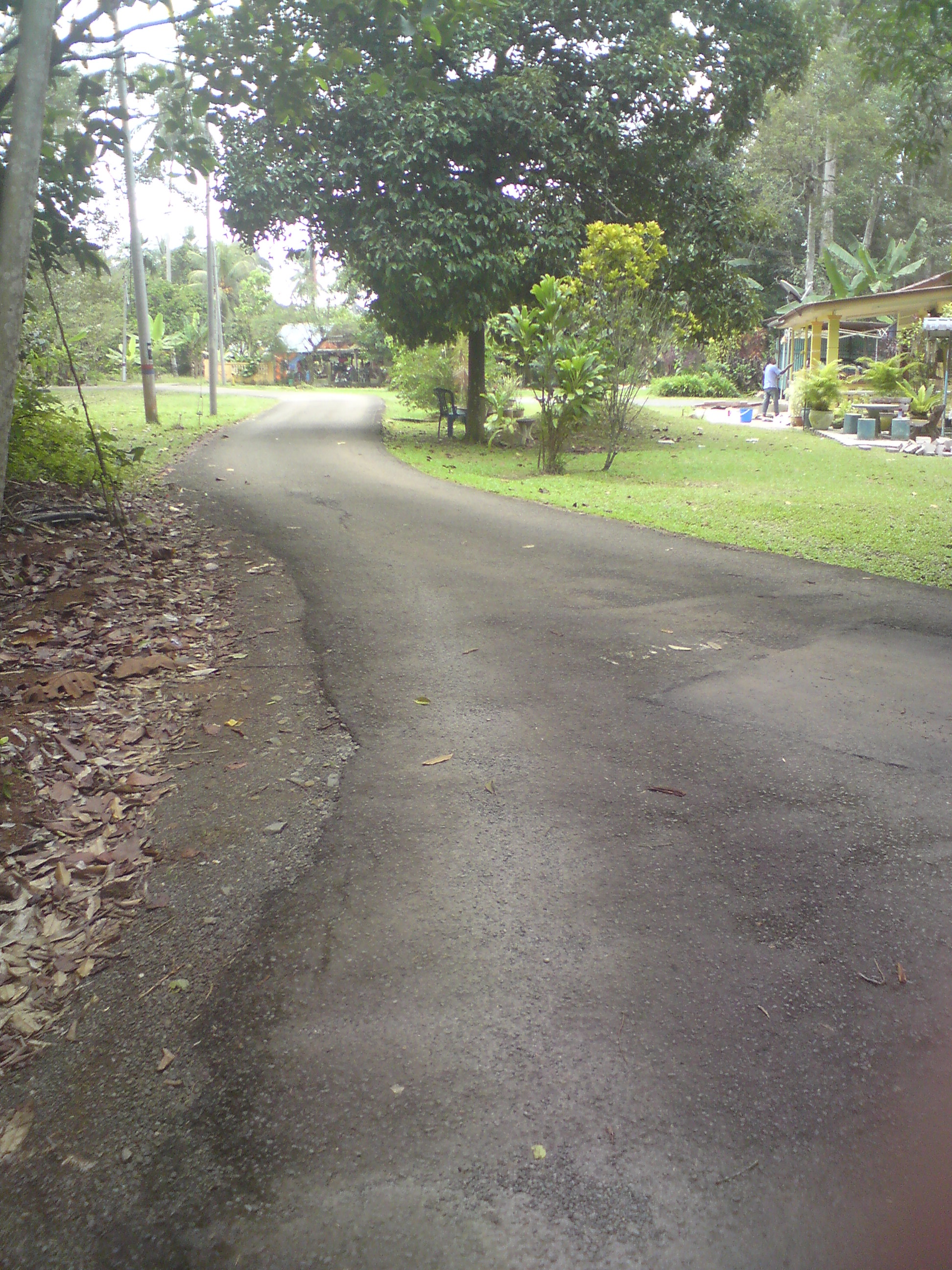 A country lane at the author's hometown near Segamat, Johor, Malaysia.